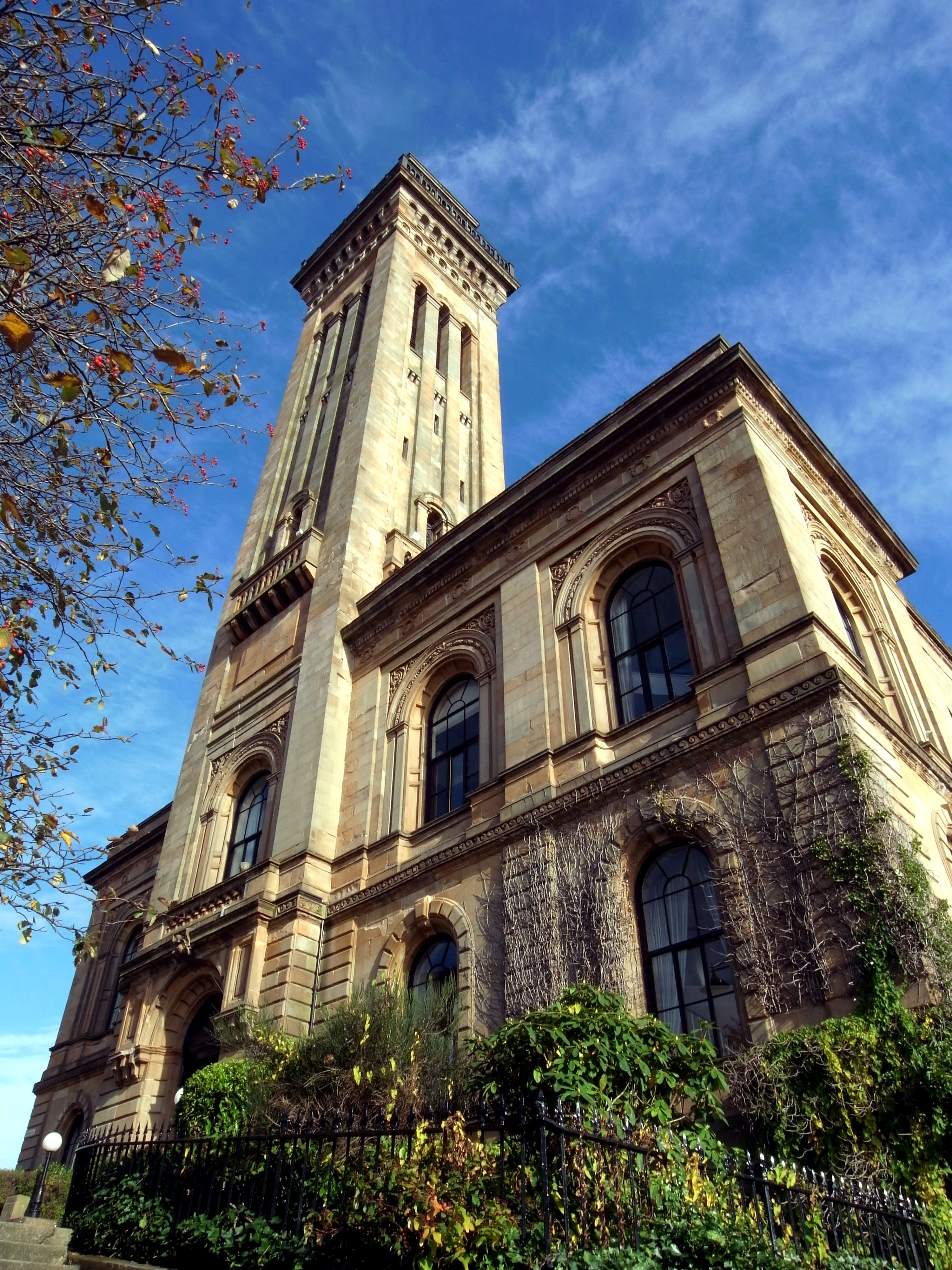 Glasgow. Former Trinity College. 31 Lynedoch Street. Built in 1856-1857 as the Free Church College, designed by Charles Wilson. View on the main facade.